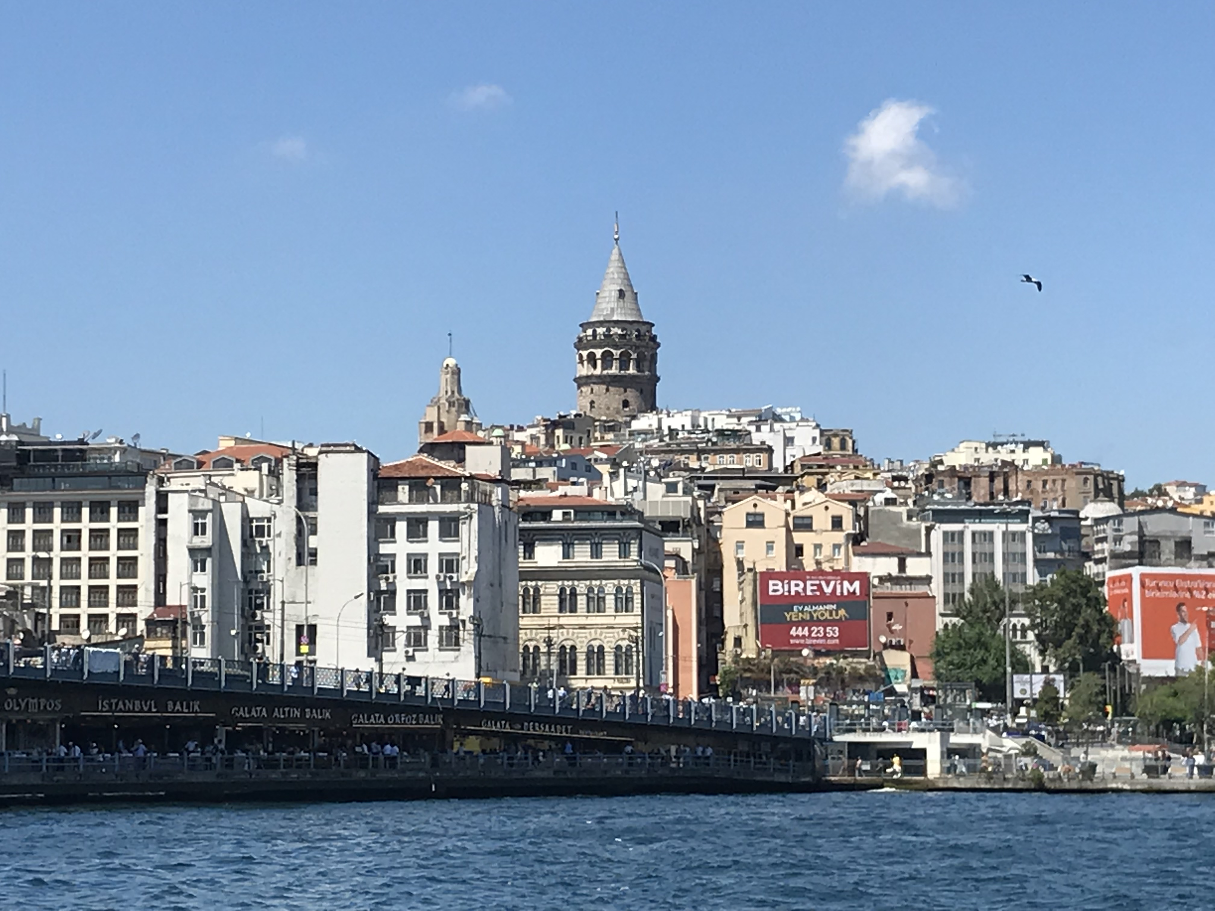 Galata Tower 20190727